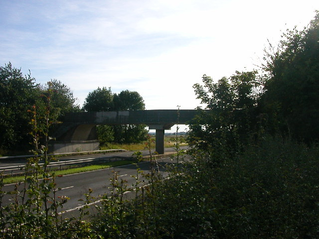 Onley Grounds-M45 Motorway Bridge - one of the original Owen Williams bridges.